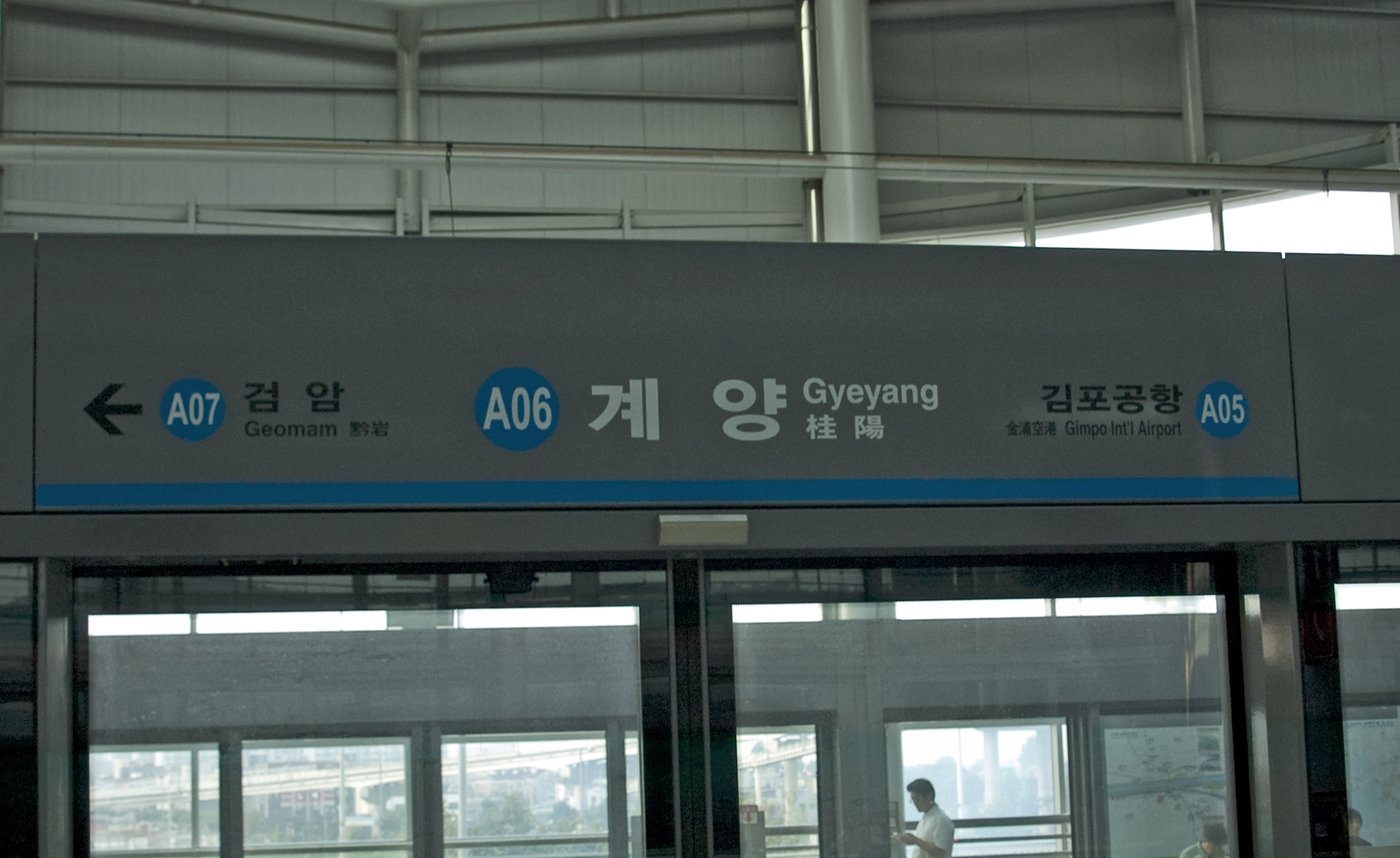 Logo of Gyeyang AREX Station, Incheon, Seoul agglo